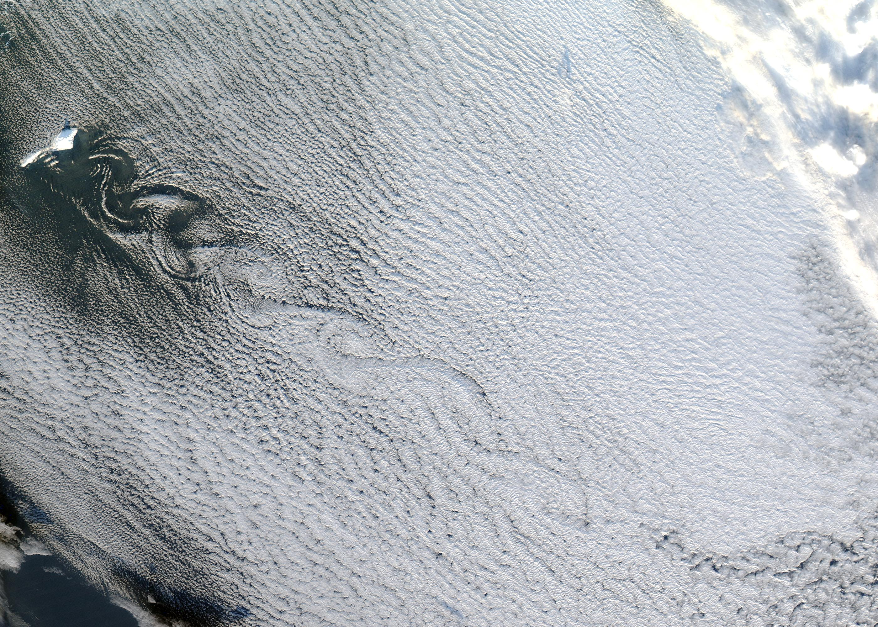 Satellite view of Jan Mayen island with a Von Kármán vortex street showned by cloud vortices, Greenland (on the left top side) and Norway (on the right bottom side) Seas